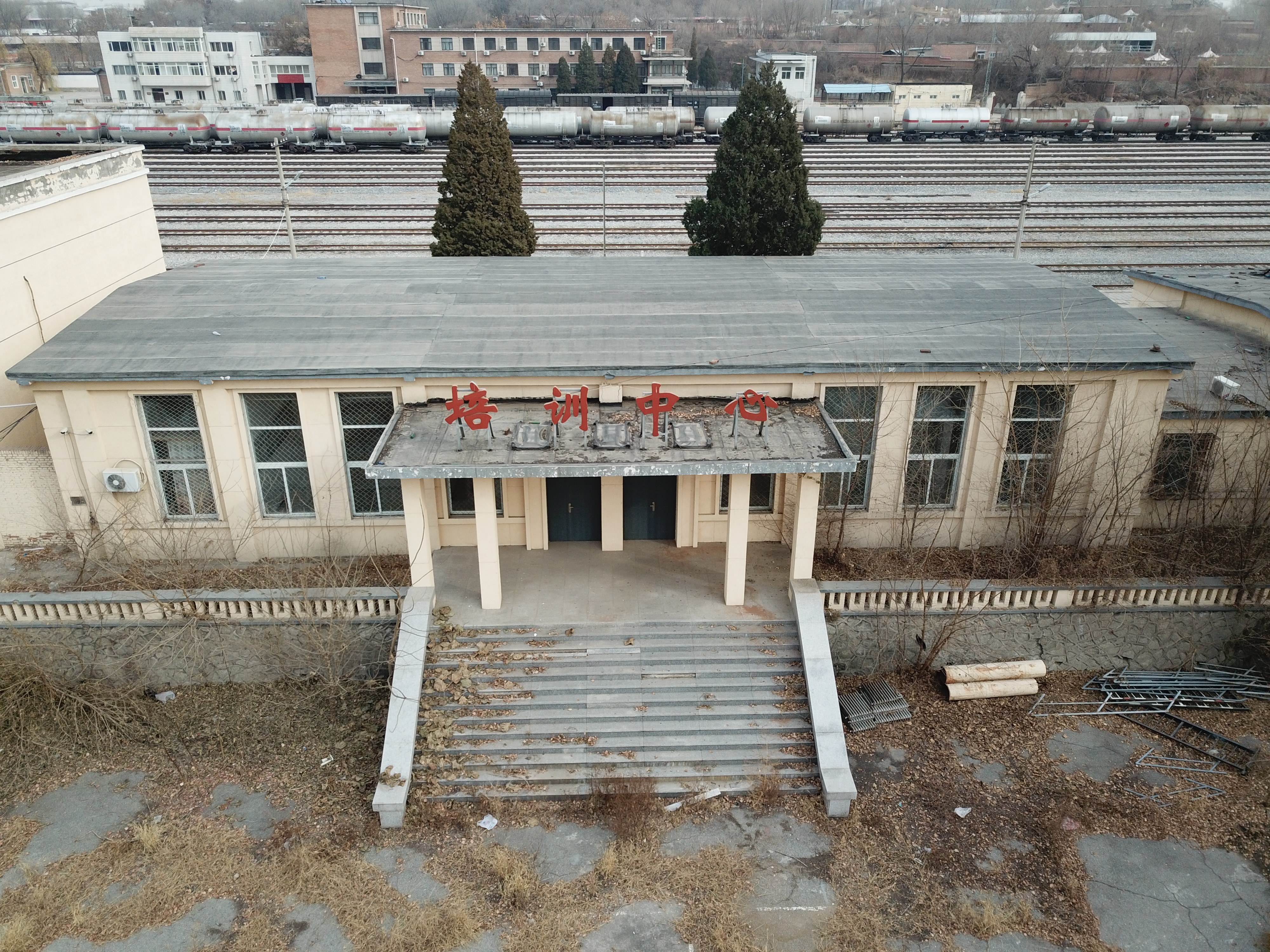 It has left us for good... now converted to a training center. 中文（中国大陆）: 房山火车站，变成了培训中心